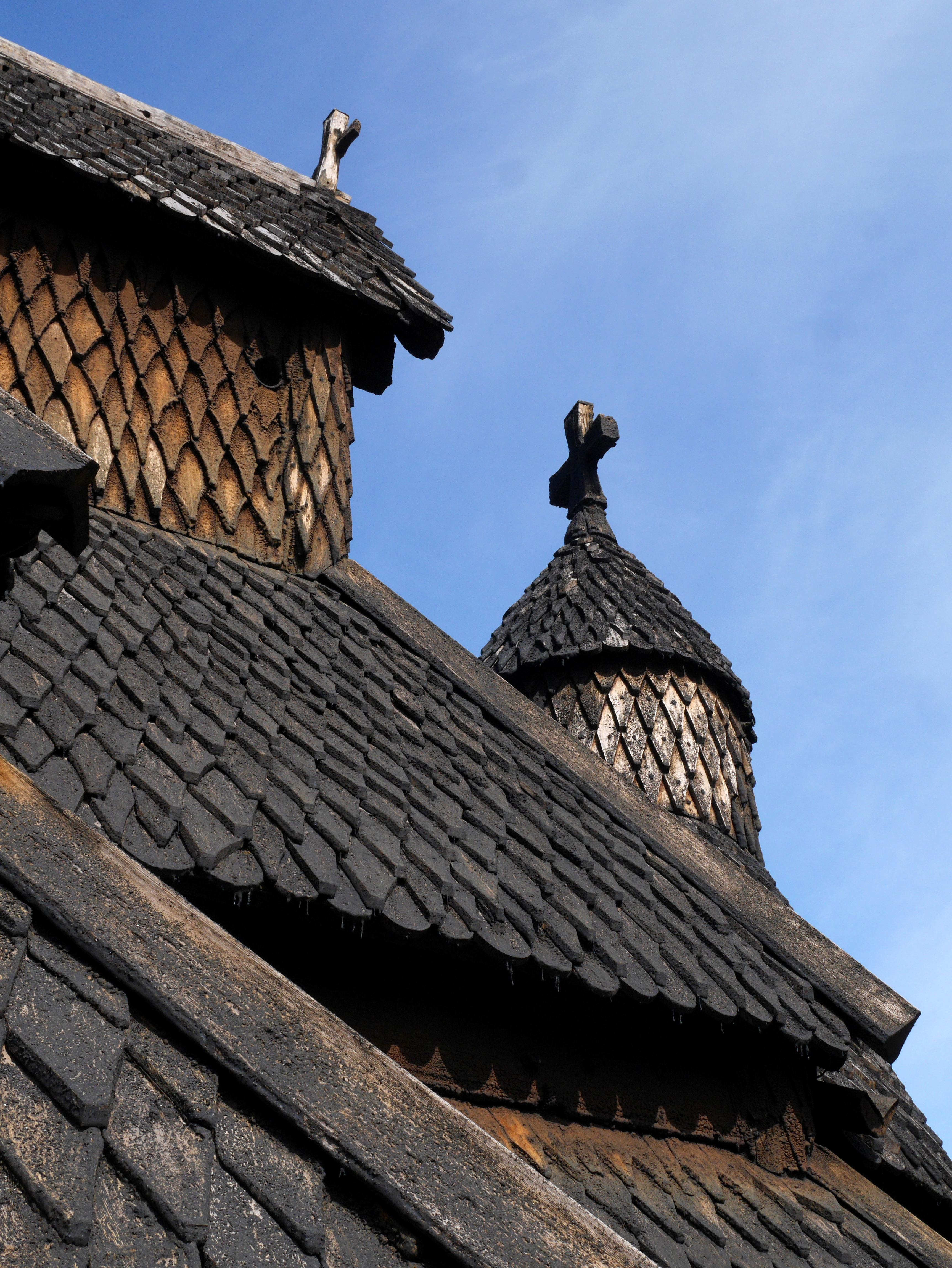 outside